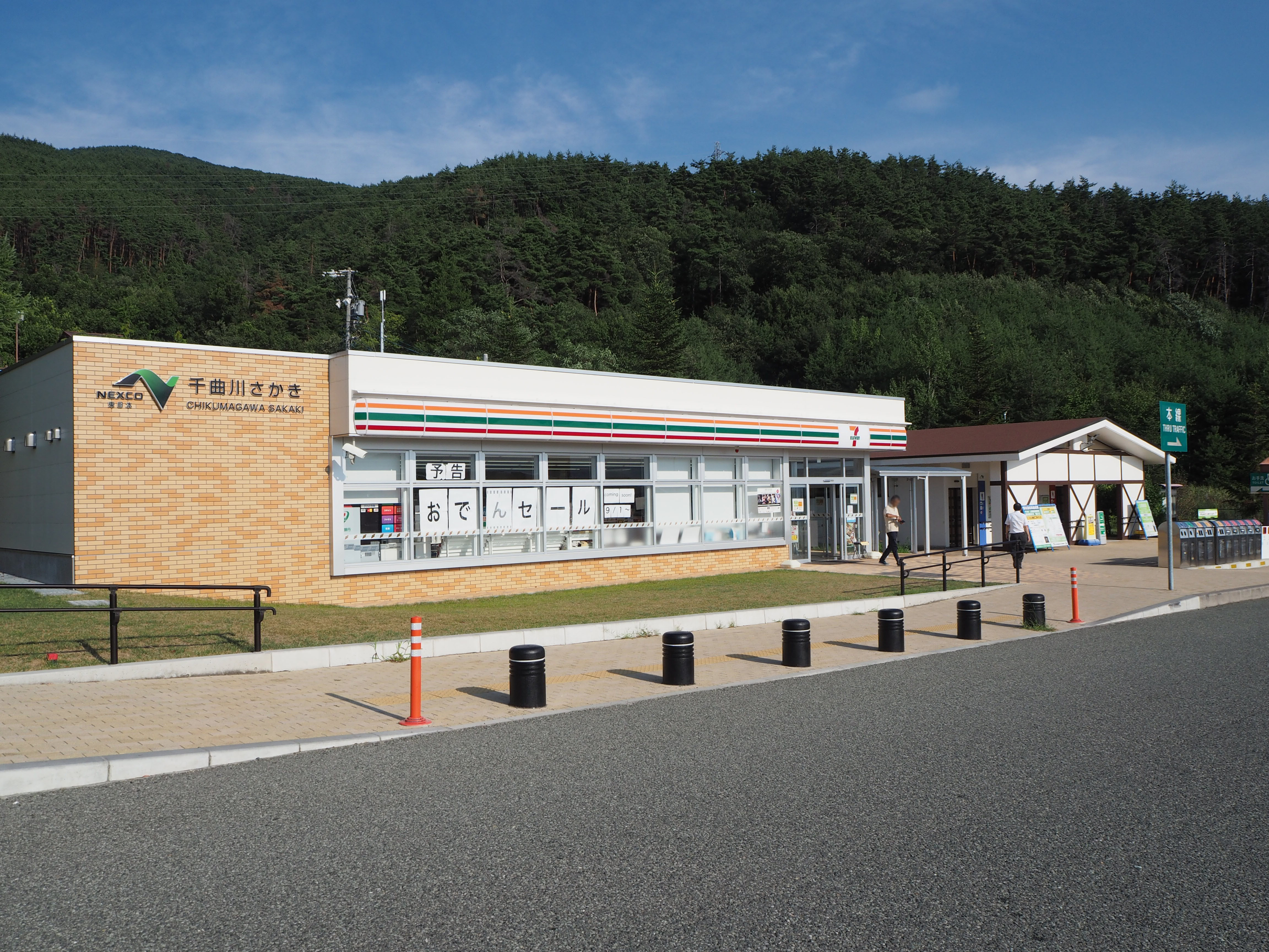 Chikumagawa Sakaki Parking Area